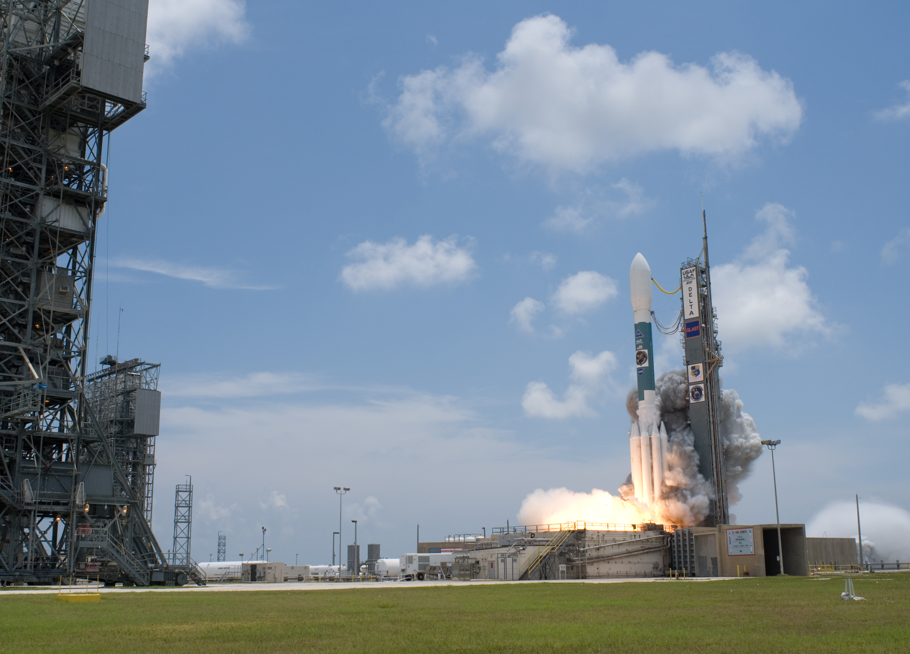 Delta rocket No. 333 just before liftoff with GLAST on Launch Pad 17B of the Cape Canaveral Air Force Station.